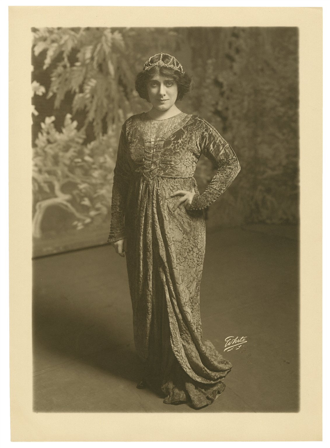 Julia Marlowe plays Portia in an early 20th century performance of Shakespeare's Merchant of Venice